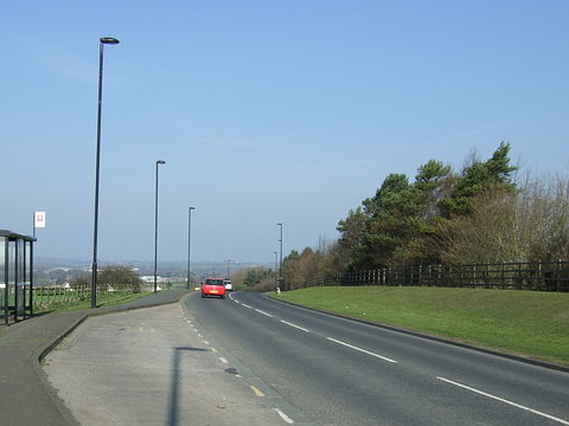 Cropped version of this image - emphasising the road rather than the bus stop